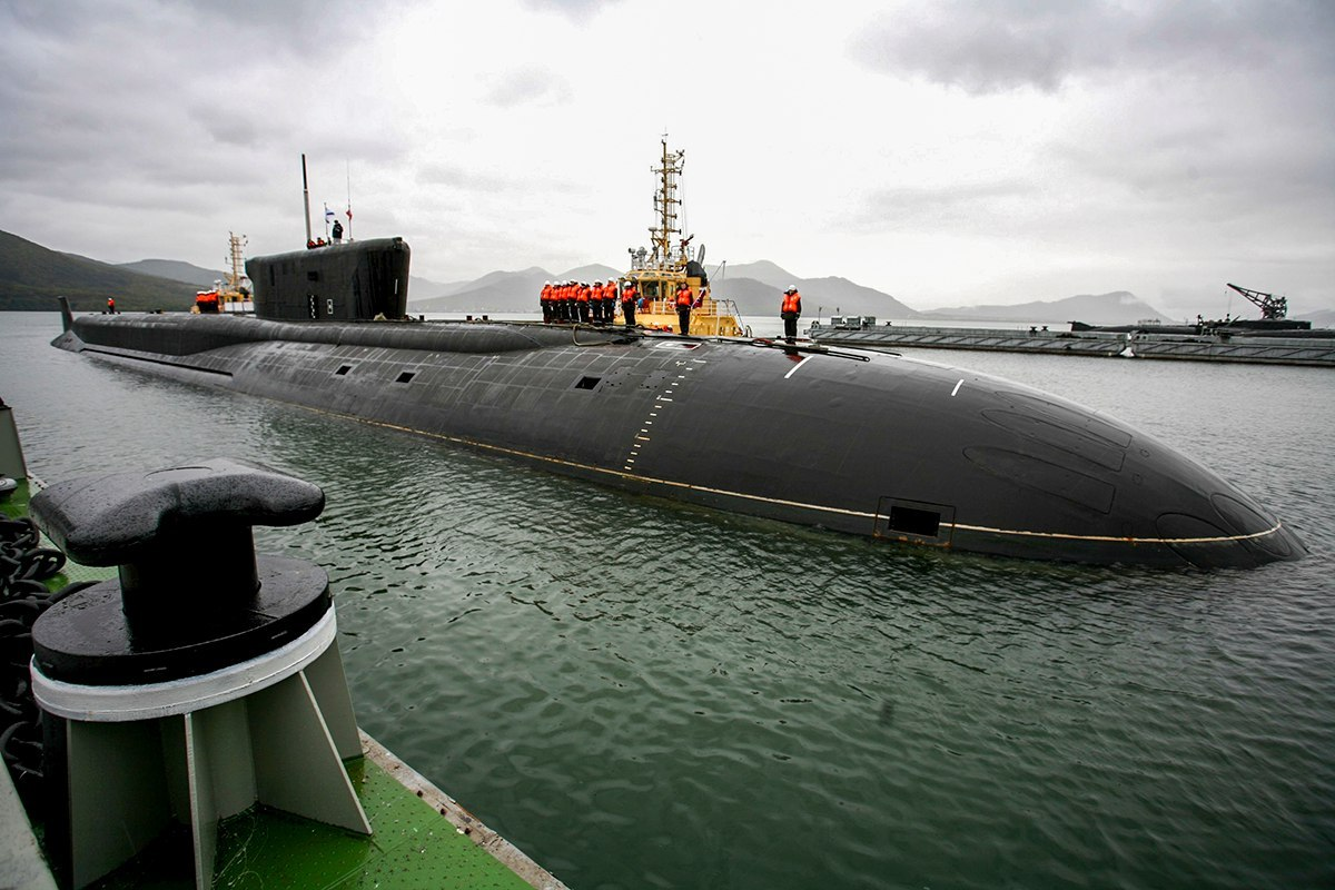 Alexander Nevsky in Vilyuchinsk.